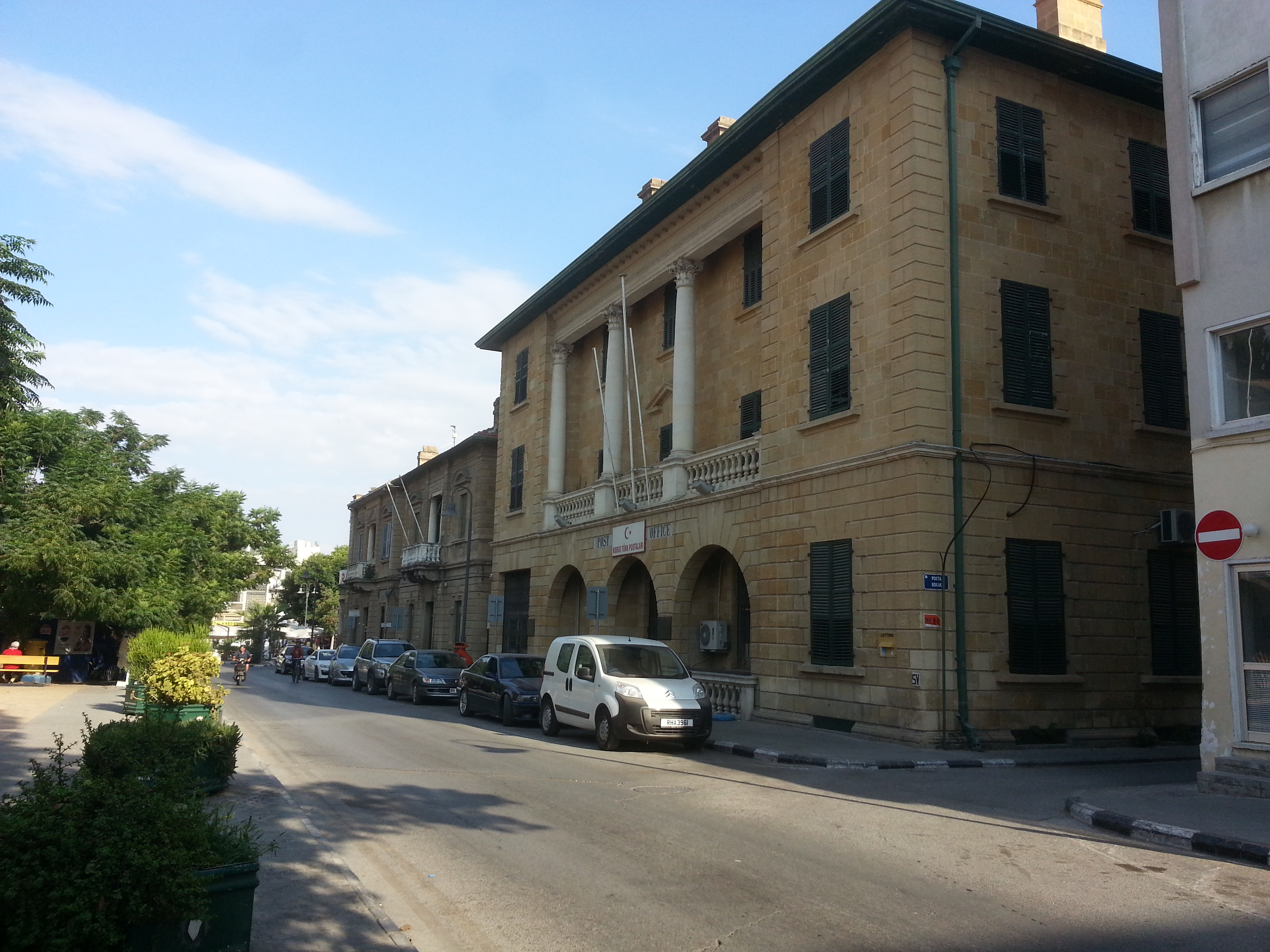 The historical, neo-Renaissance style post office in Sarayönü, North Nicosia, Northern Cyprus